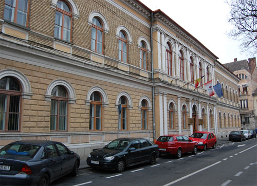 One of the former Bolyai University buildings in Cluj-Napoca (str. Daicoviciu 15)